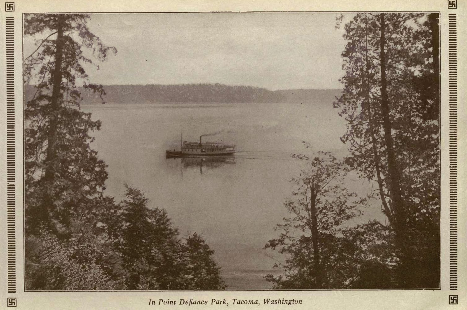 View From Point Defiance Park, Tacoma, Washington circa 1916 from Overland Monthly, September 1916